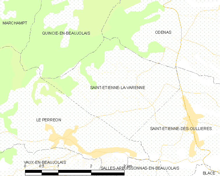 Map of French municipality